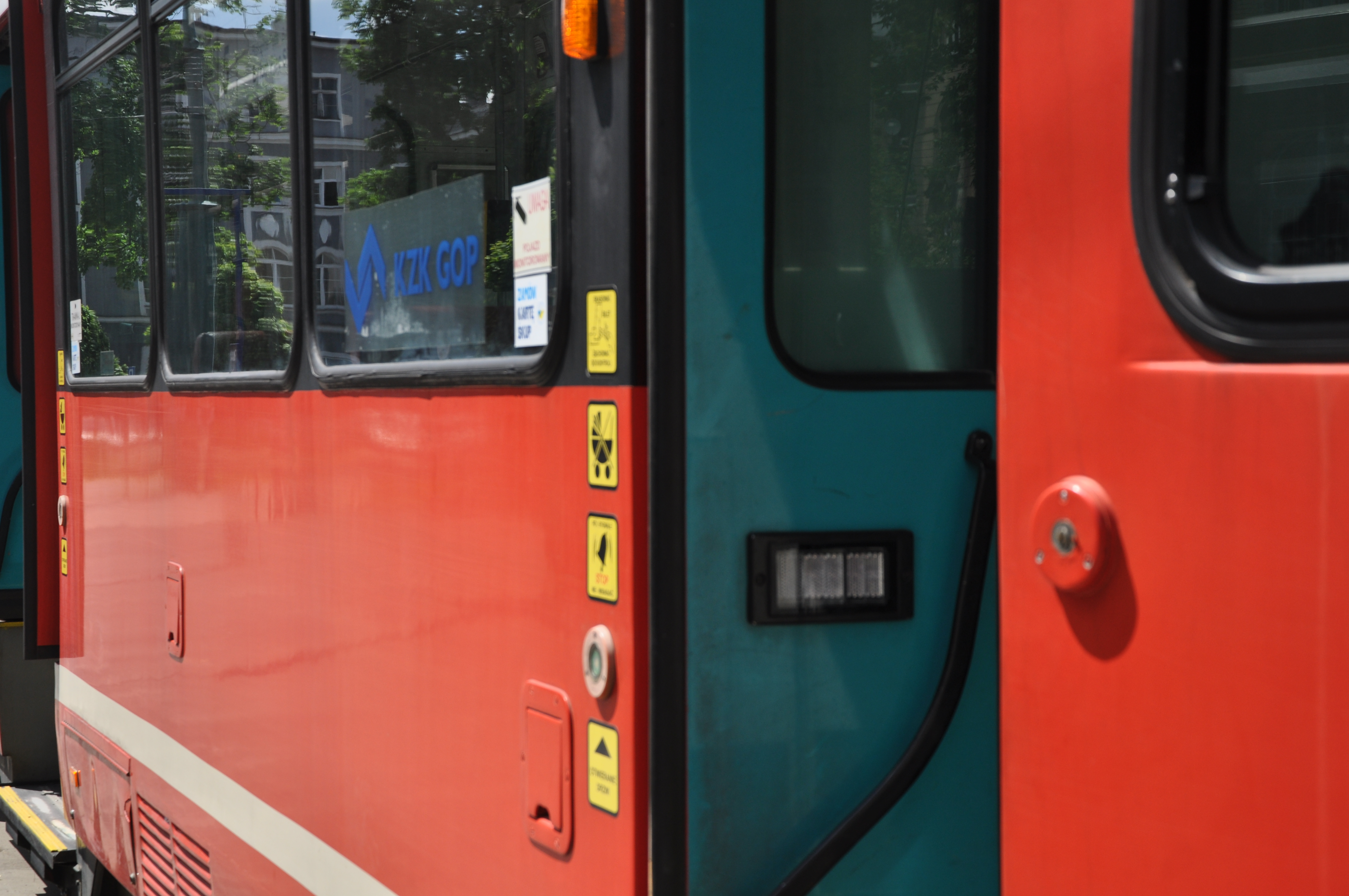 Trams of Tramwaje Slaskie